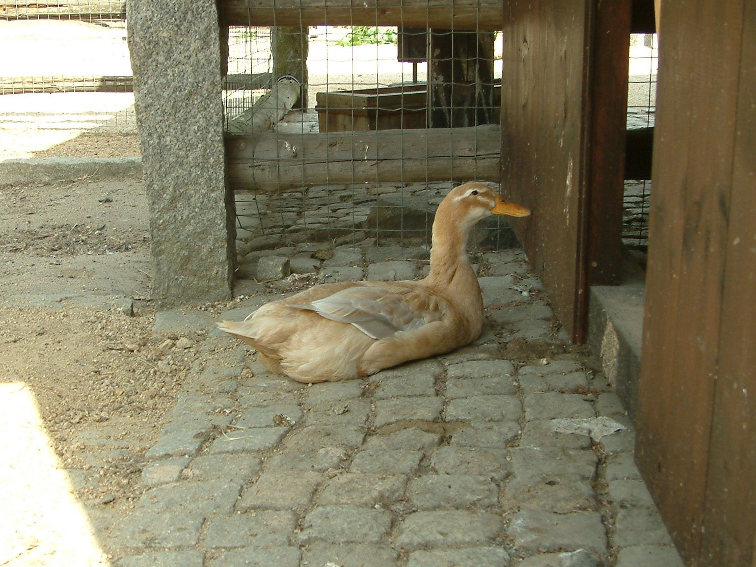 A female Saxonian duck, zoo Görlitz, 8 June 2011